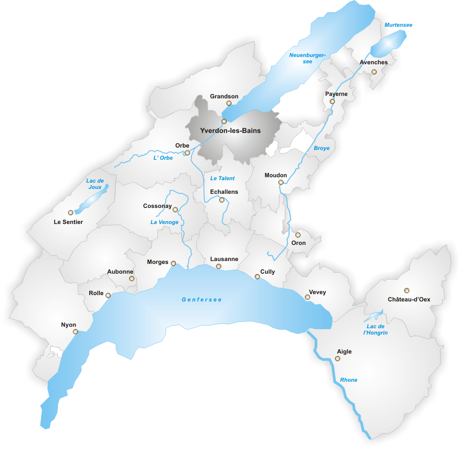 District Yverdon until 2007